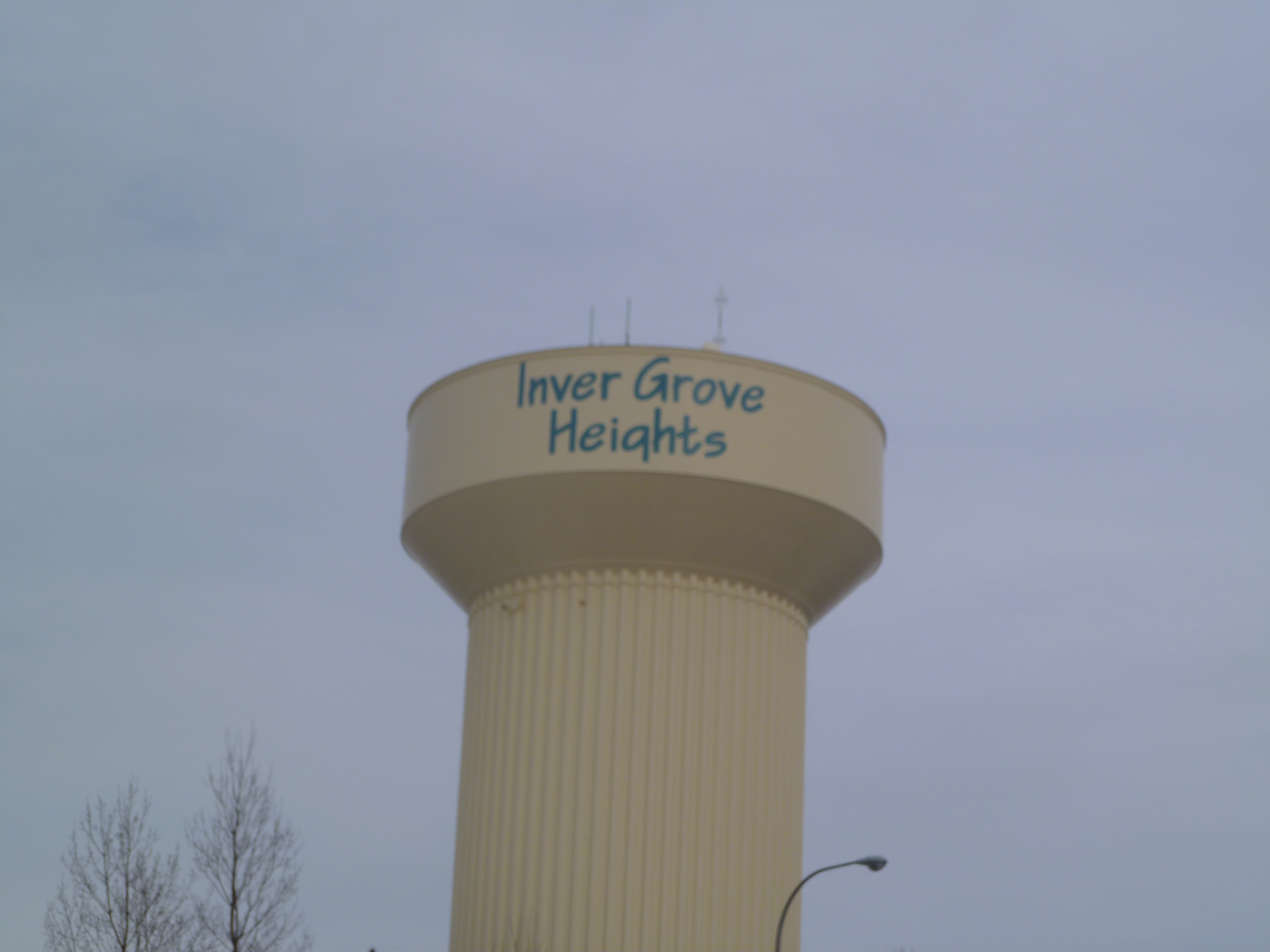 Inver Grover Heights Water Tower